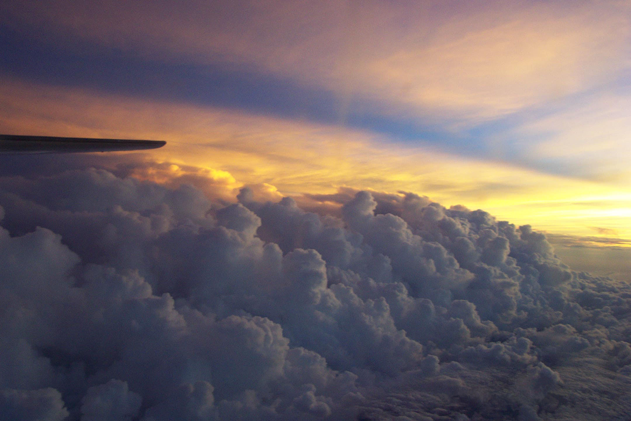 NOAA aerial photo of Hurricane Isidore taken Thursday, Sept. 19, 2002 at 7:36 p.m. EDT from a NOAA P-3 Orion "hurricane hunter" aircraft at an altitude of 7,000 feet.